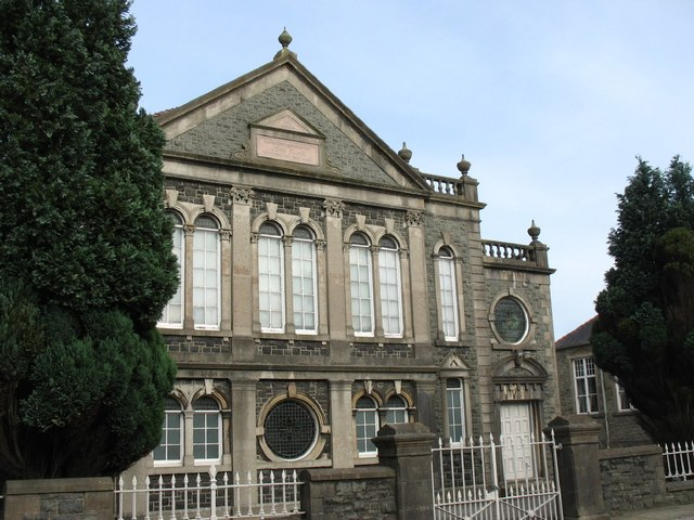 The front of Capel Moreia - a Grade II listed building 904668 963261